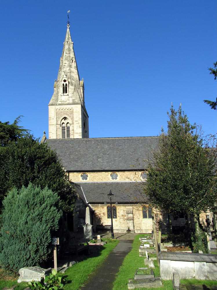 Photograph of St Dunstan's Church, Cheam